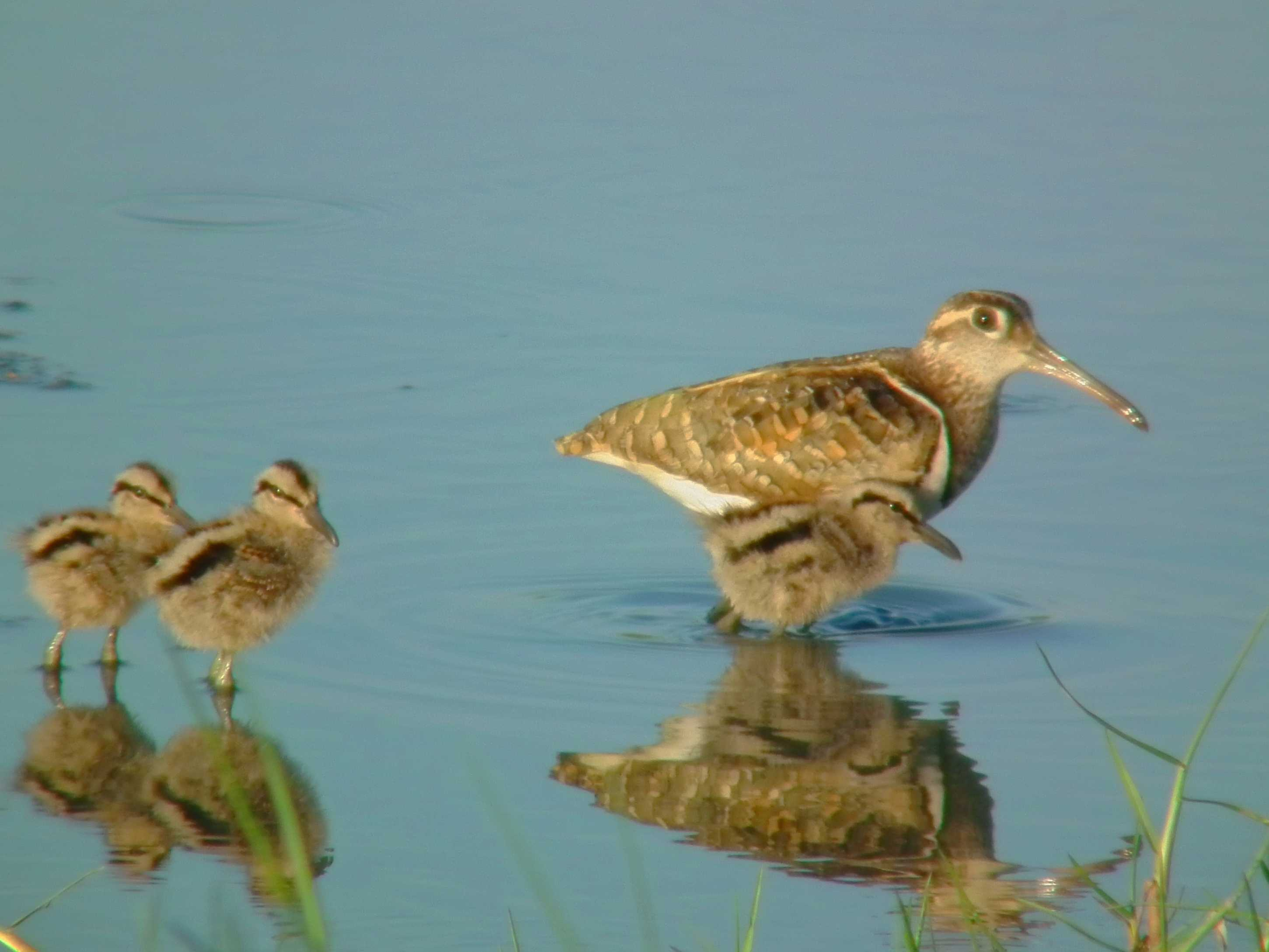 Greater Painted Snipe, Rostratula benghalensis with chicks. Saw at the wet lands. Got videos of their relaxing time, dad's covering,dad's protection and their food searching time.